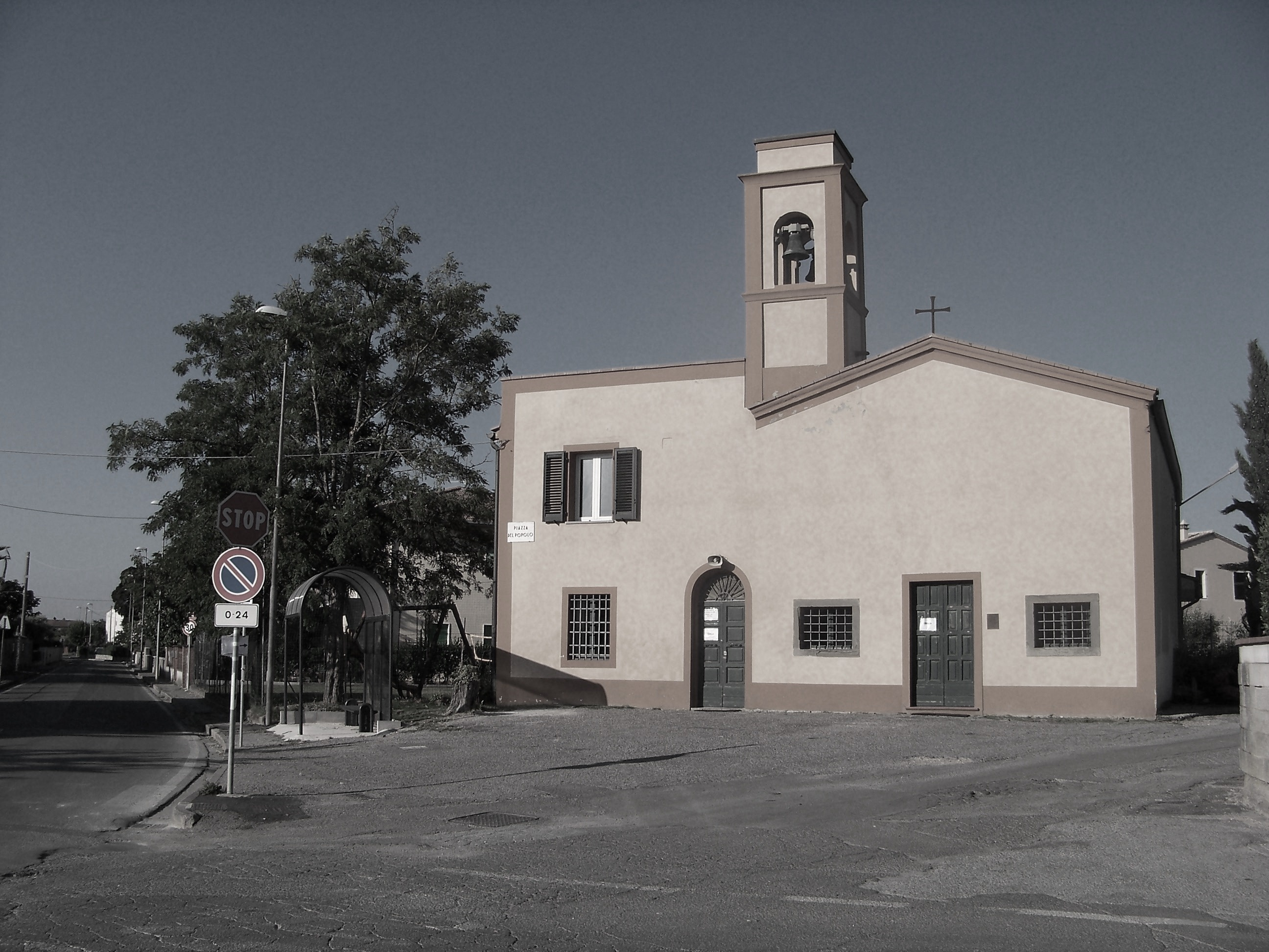 Church of "Santa Lucia di Pedisciano" - Pontedera (Pisa)